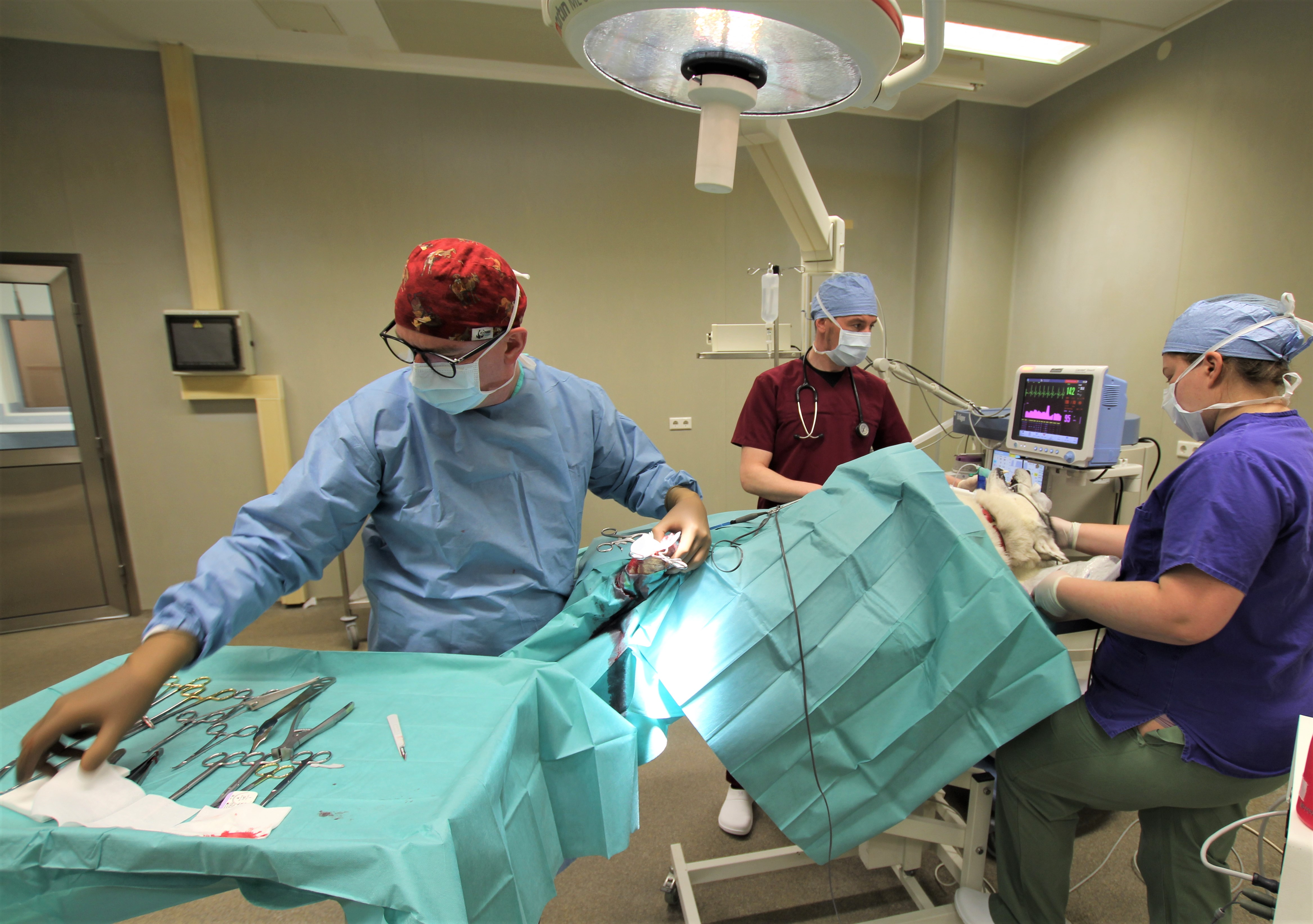 The Animal Clinic of the Estonian University of Life Sciences is a high-level veterinary center operating 24/7. The clinic is designed to train veterinary students, but veterinary services are offered to everyone.